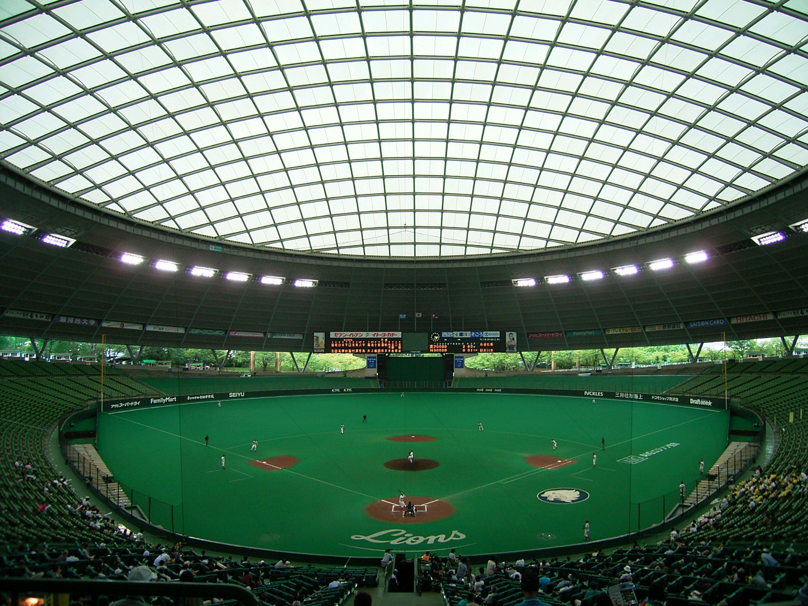 Seibu_Dome